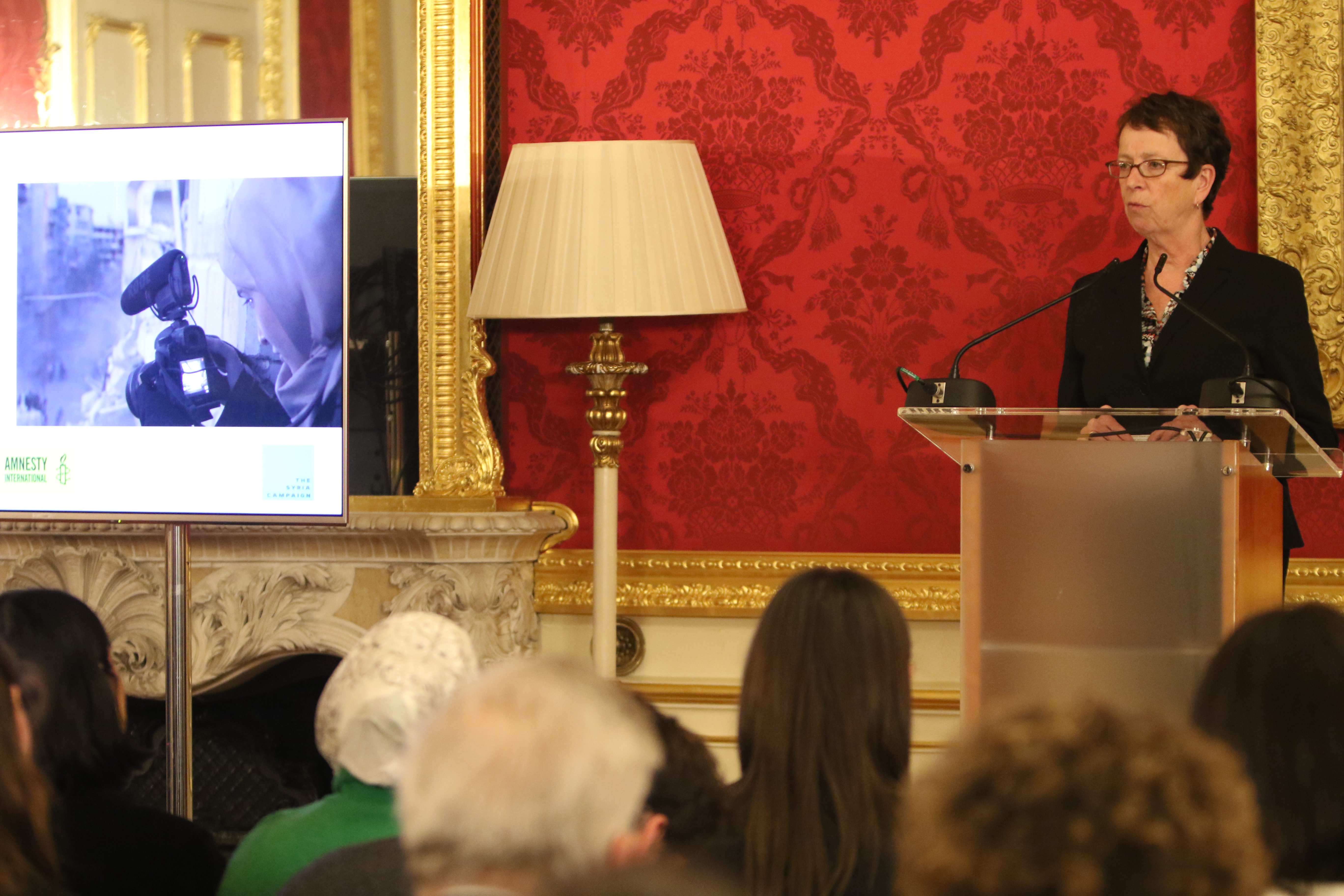 Kate Allen, Director of Amnesty International UK speaking at the From the Frontline – Female Journalists in Syria event in London, 5 March 2019.